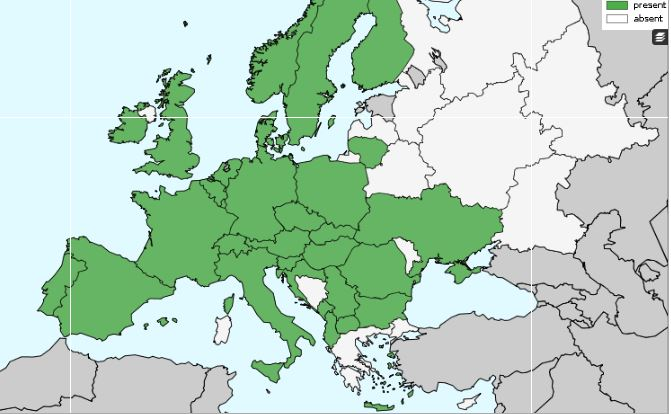 Rasprostranjenje vrste u Evropi (Fauna Europaea)